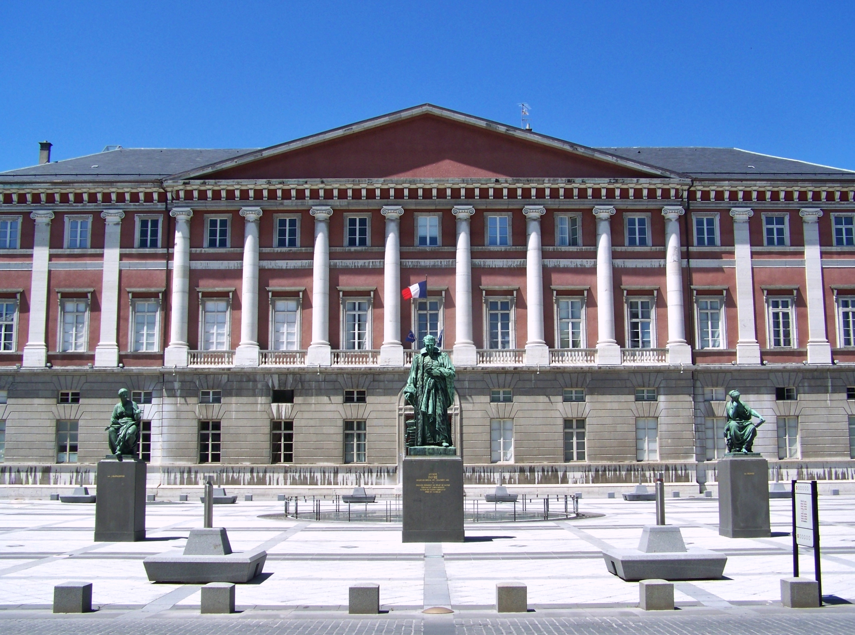 City of Chambéry courthouse (palais de justice) in Savoie, France.